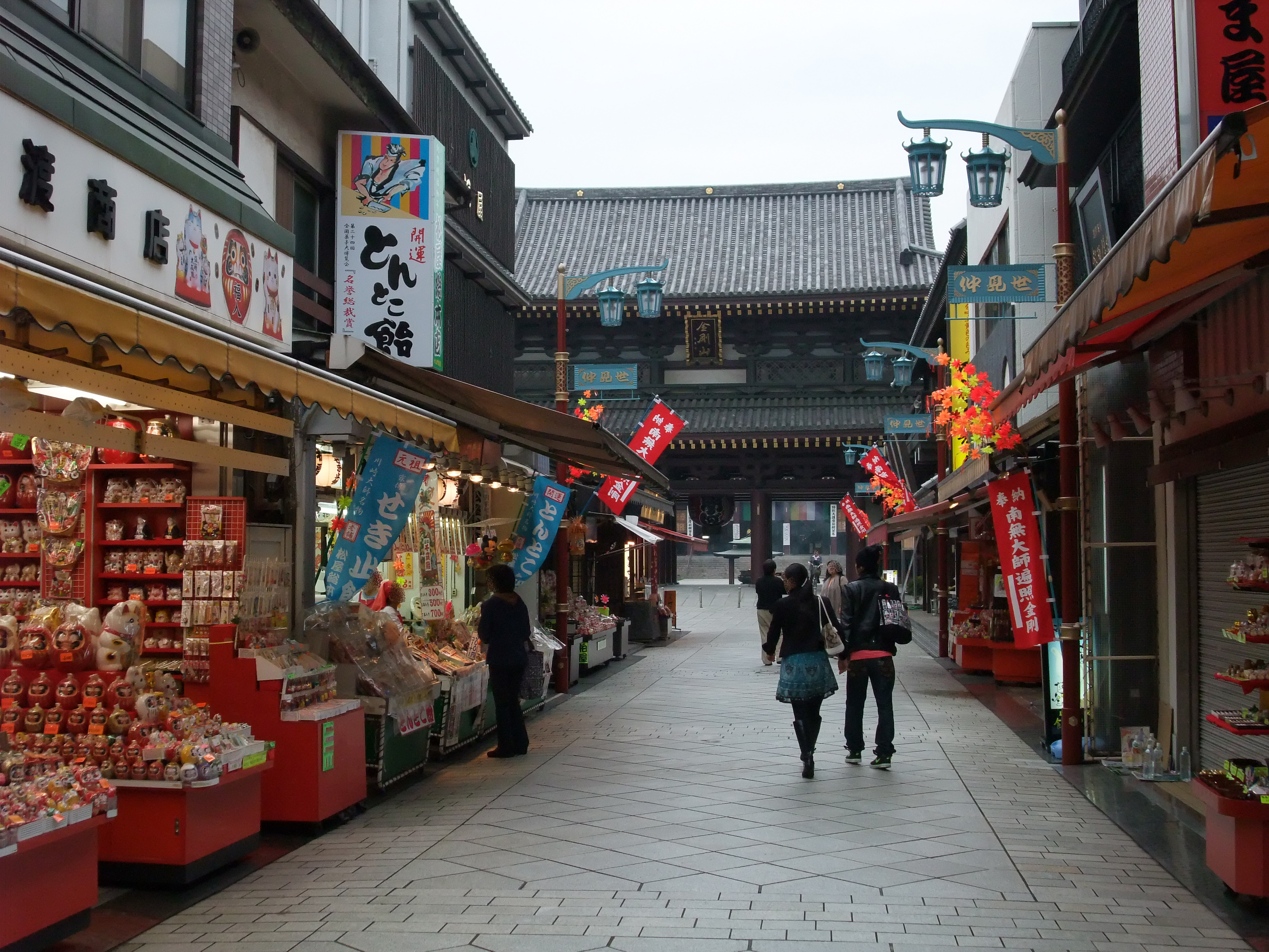 Nakamise and Heiken-ji temple gate